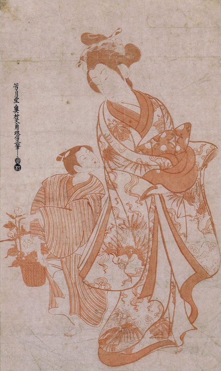 Courtesan and Boy Flower Seller, woodblock print by Okumura Masanobu, c. 1730s, dai-oban tate-e 22 x 13.5 in.